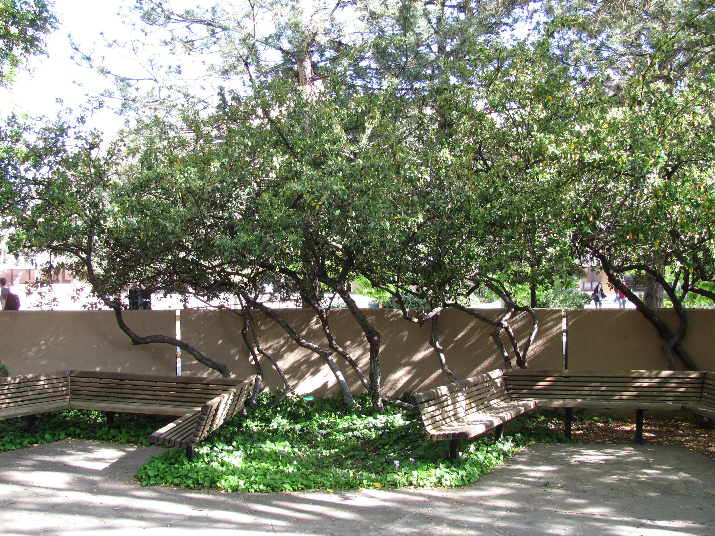 Cotoneaster Lacteus, UNM Arboretum, Albuquerque New Mexico